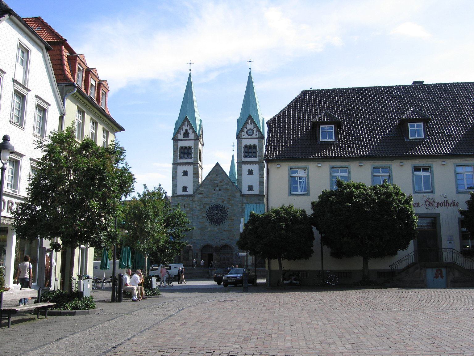 Market square with Wallfahrtsbasilika, Werl, North Rhine-Westphalia, Germany. Picture taken by Christian Koehn (fragwürdig) Date: August 24, 2005.